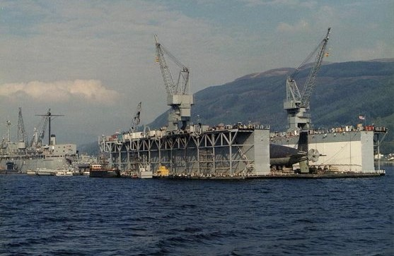 Tender & Floating Drydock with SSBN